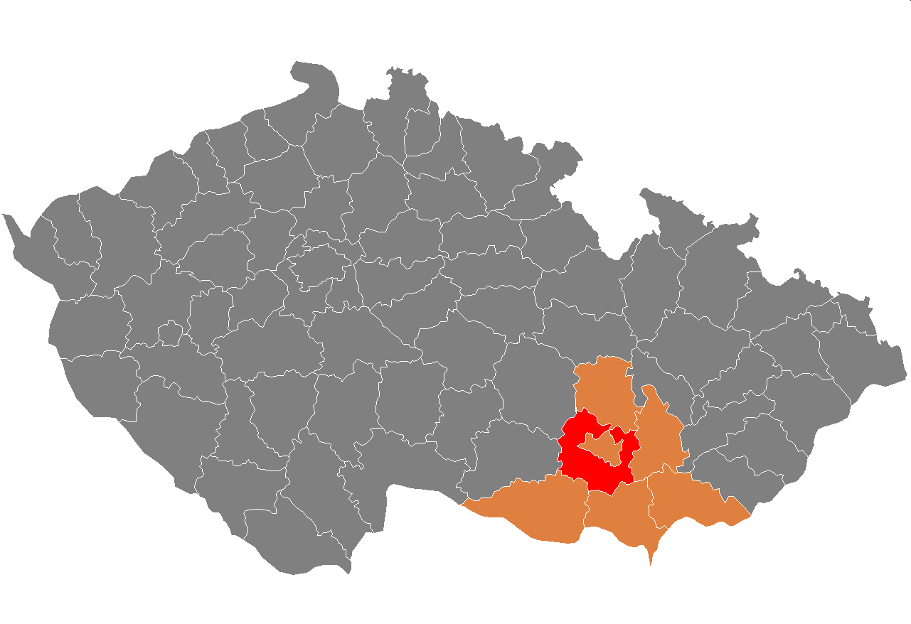 Location of Brno-Country District within the Czech Republic